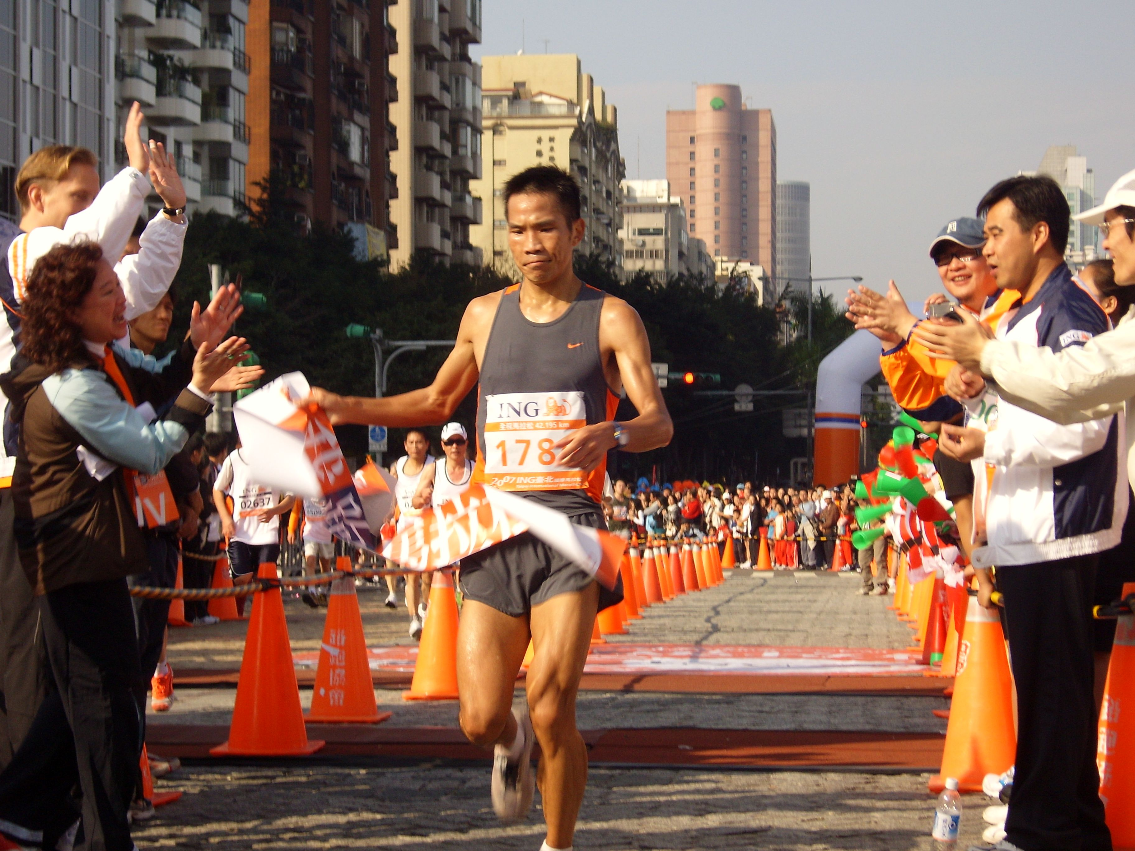 2007 ING Taipei Marathon: Wen-chien Wu, Taiwan Champion of 42K class.